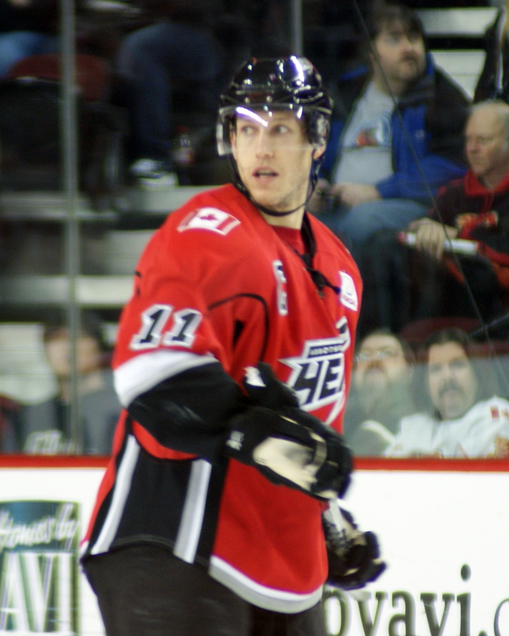 Photo was taken on February 18, 2011 during an American Hockey League (AHL) regular season game.